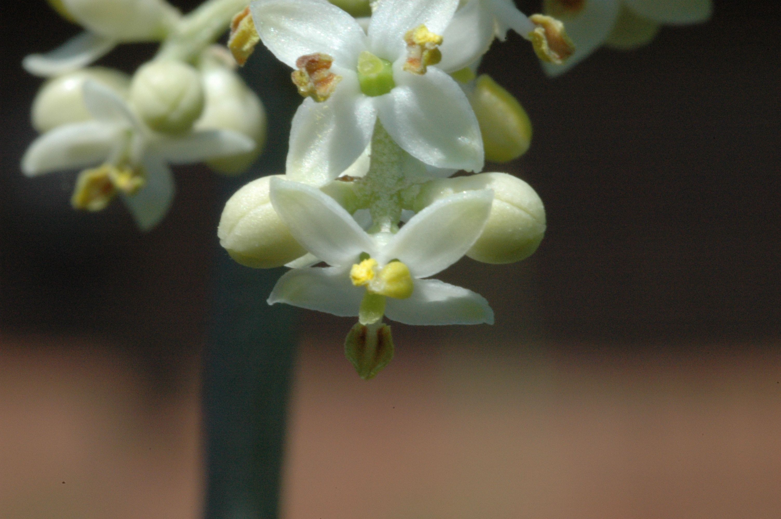 Olive flower